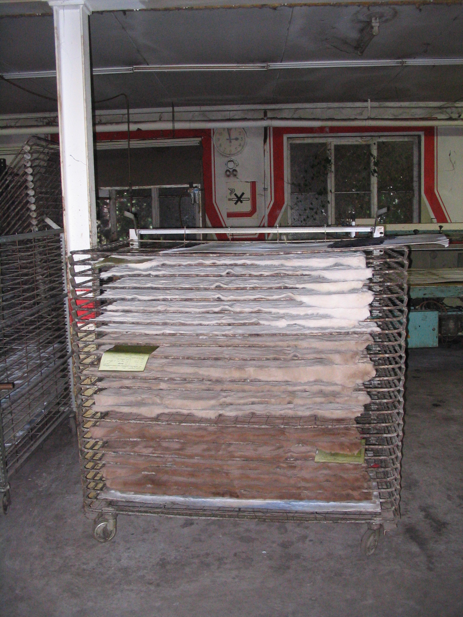 At the fur dressers